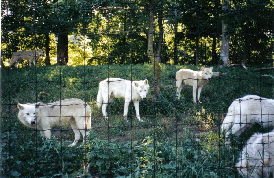 A pack of Arctic Wolves at the Toronto Zoo.